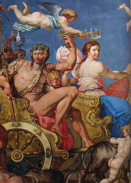 Painting by Giuseppe Borgni (1701-1761) painted circa 1752 on a ceiling at West Wycombe Park. A copy of Annibale Carracci's original work at the Palazzo Fernese. The painting depicted here is over 250 years old, therefore is in the public domain by virtue of age.